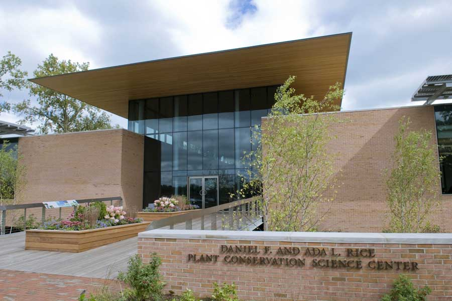 The Daniel F. and Ada L. Rice Plant Conservation Science Center was open to the public on Sept. 23, 2009.